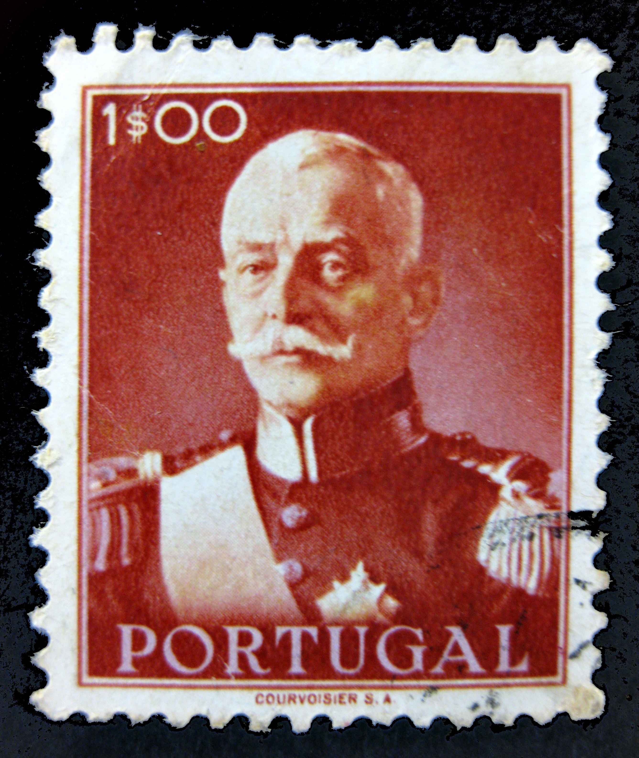 Stamp - 1$00 - 1945 - President Óscar Carmona - Portugal